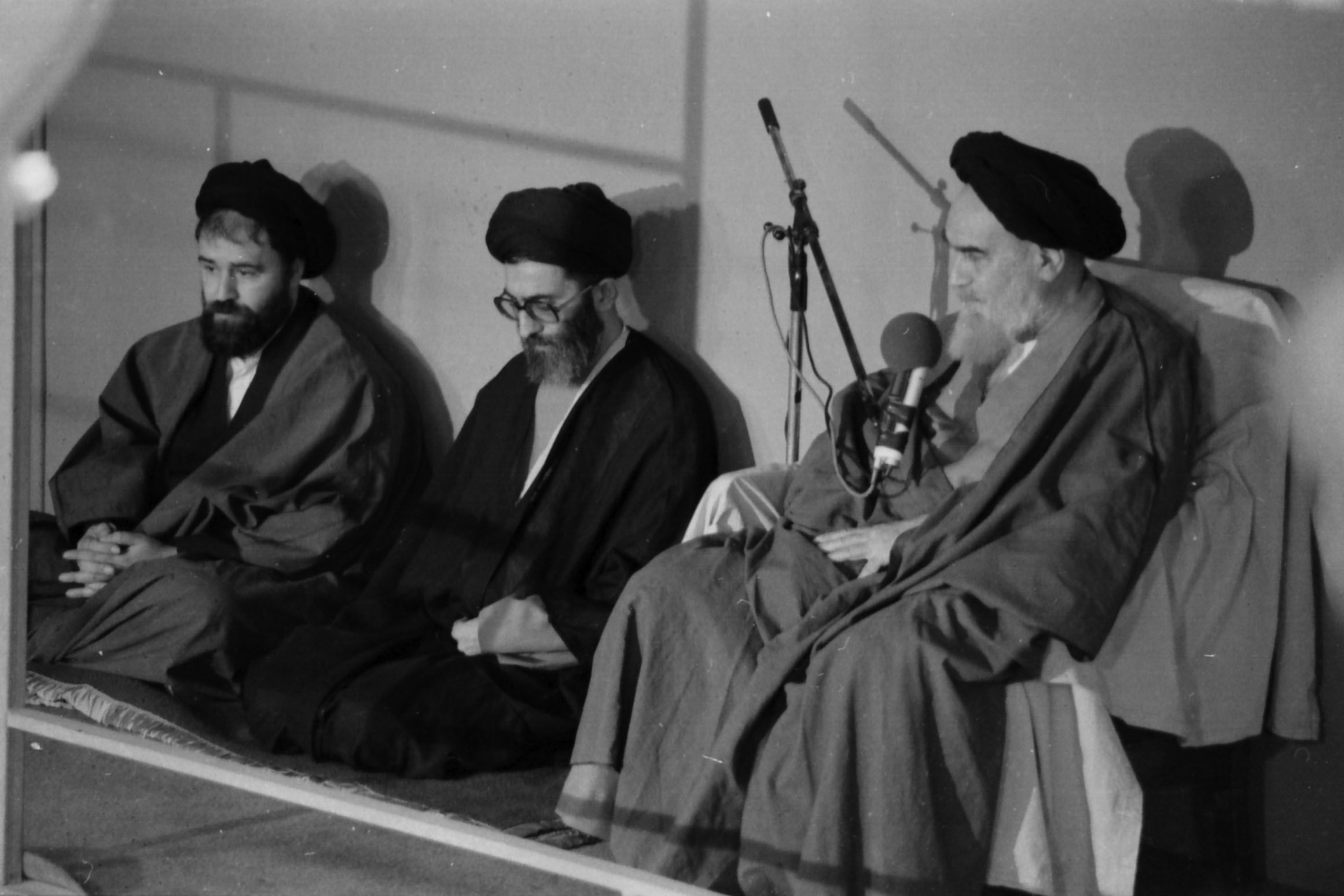 Ali Khamenei first presidency decree/ inauguration by Rohullah Khomeini, Jamaran, Tehran. Right , Ruhollah Khomeini sitting on chair; Middle, Ali Khamenei; Left, Ahmad Khomeini.